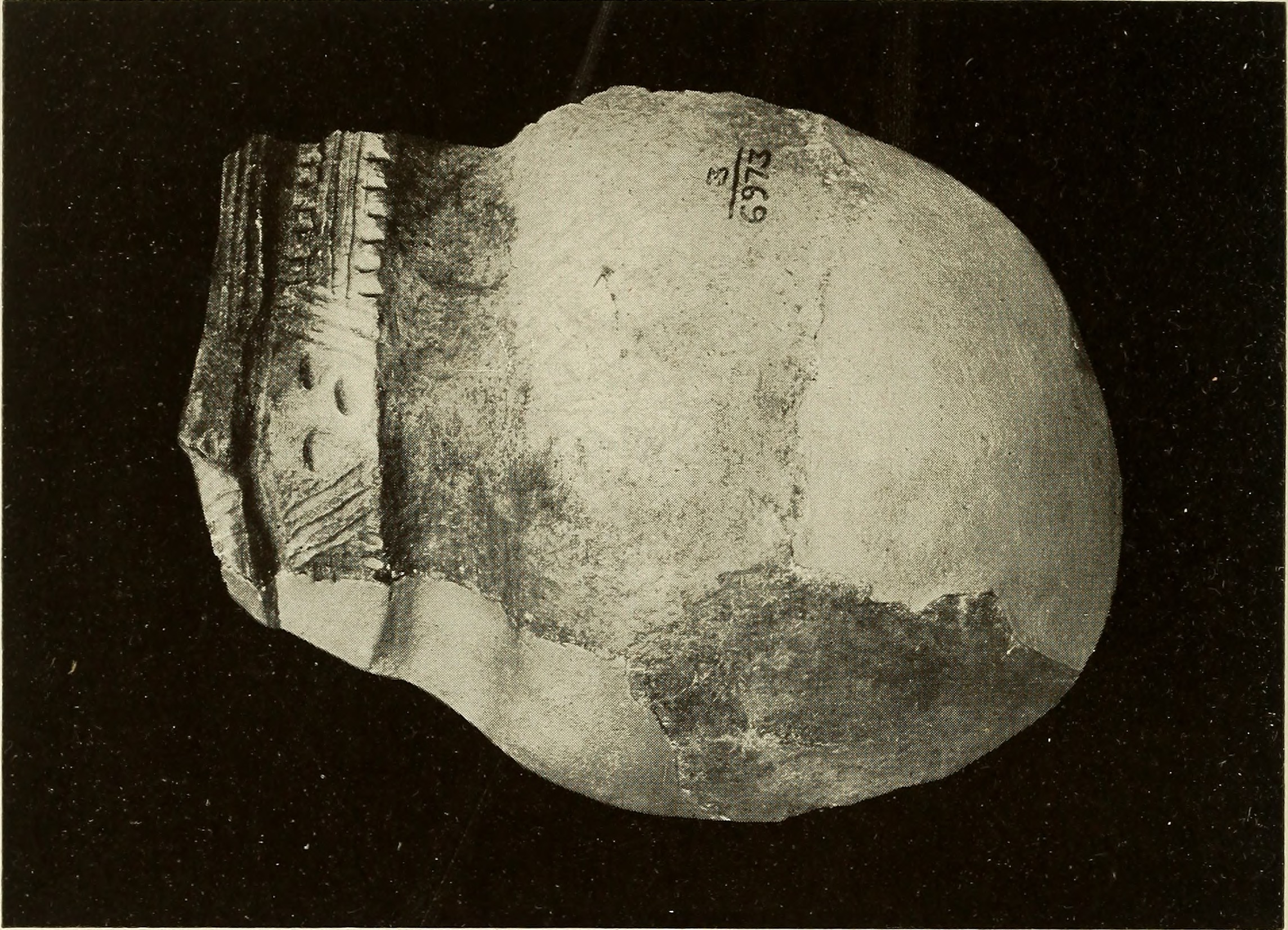 Title: Exploration of a Munsee cemetery near Montague, New Jersey Year: 1915 (1910s) Authors: Heye, George G. (George Gustav), 1874-1957 Pepper, George H. (George Hubbard), 1873-1924, joint author Subjects: Munsee Indians Publisher: New York, The Museum of the American Indian, Heye Foundation Text Appearing Before Image: side. Skeleton 60 was lying in the same position as the one justdescribed, and on its head rested a fragment of an earthenwarebowl, 3 in. in depth. Strange to say, this was the only sherd of abowl found with a burial. In connection with the subject of urn-burials the reader isreferred to the section treating of Pits Containing Jars (pages 67-70). Feast-pits In the descriptions of the burials mention is made of feast-pitsand the remains of feasts as represented by animal bones (many ofwhich had been broken, evidently for the purpose of extracting themarrow), bird bones, shells, etc. In many instances the disturbedarea was merely an extension of the grave itself, showing that therefuse from the feast had been either deposited near the body ormingled with the earth with which the remains were covered. In some instances were found so-called pits a short distancefrom the burial. In one case, for example, the edge of such a pitwas three feet from the nearest edge of the grave of Skeleton 6. Text Appearing After Image: '